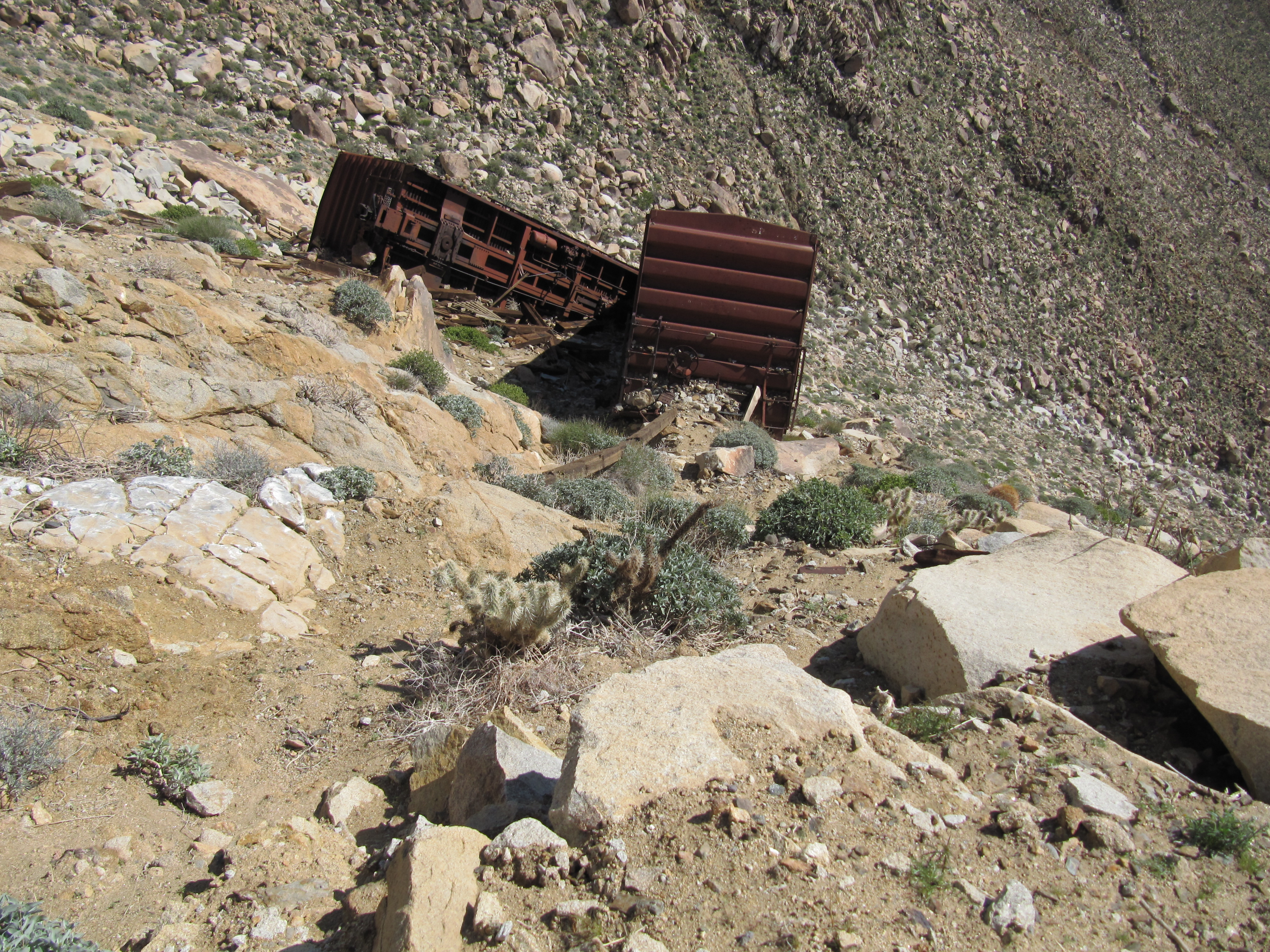 Two railroad cars that went off the track of the Impossible Railway - Photograph by Patty Mooney